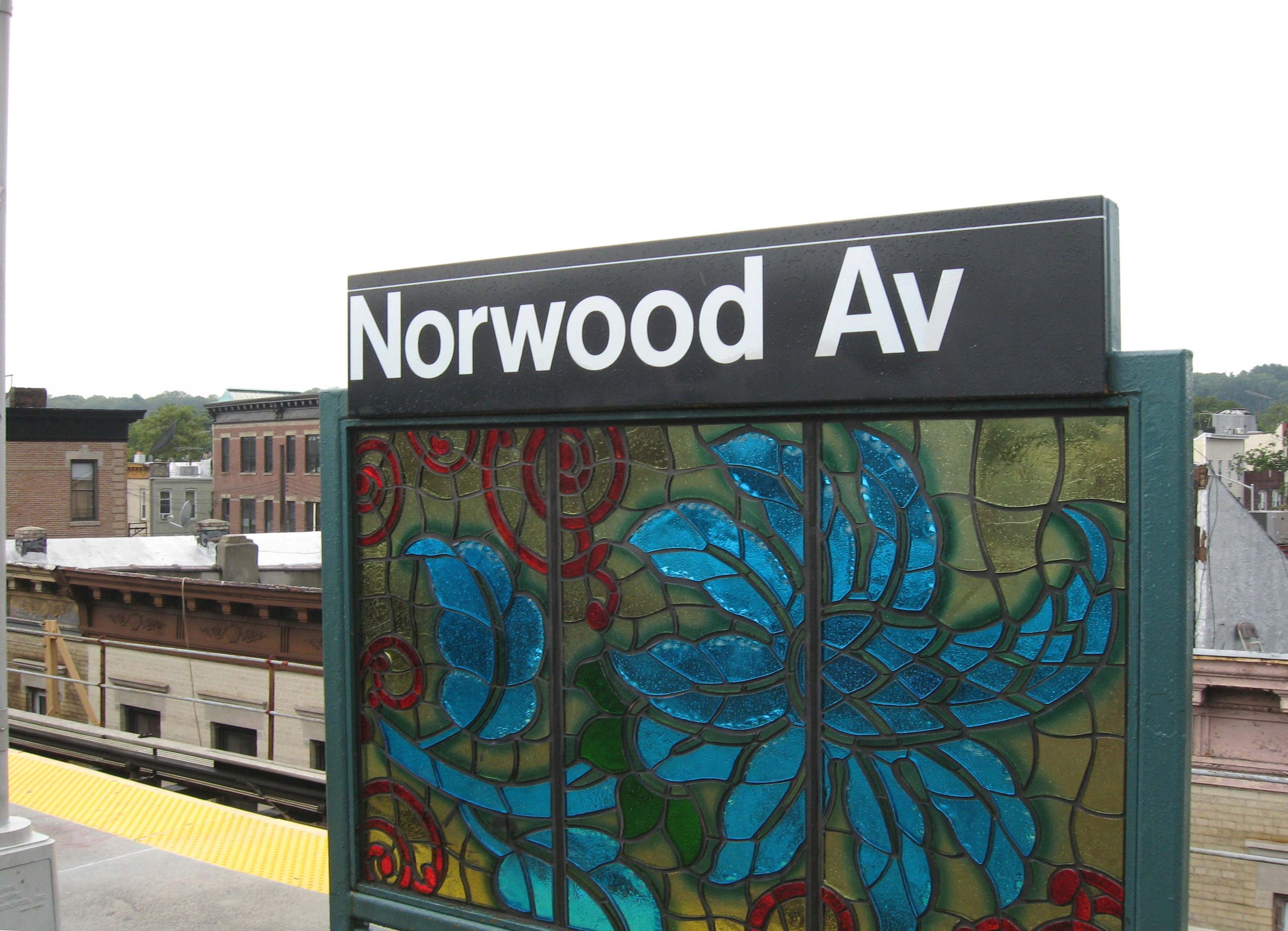 Looking northwest across western end of platform of Norwood Avenue (BMT Jamaica Line) on a rainy midday.